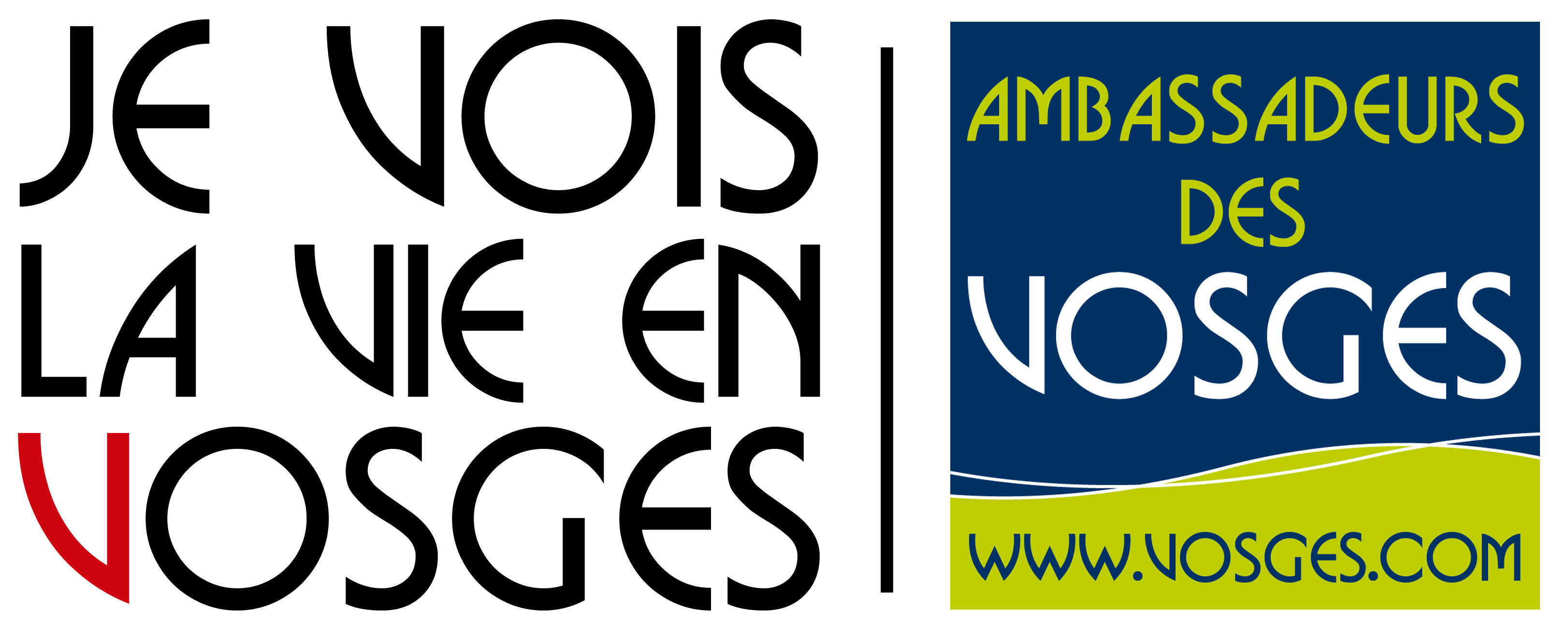 logo ambassadeurs des vosges